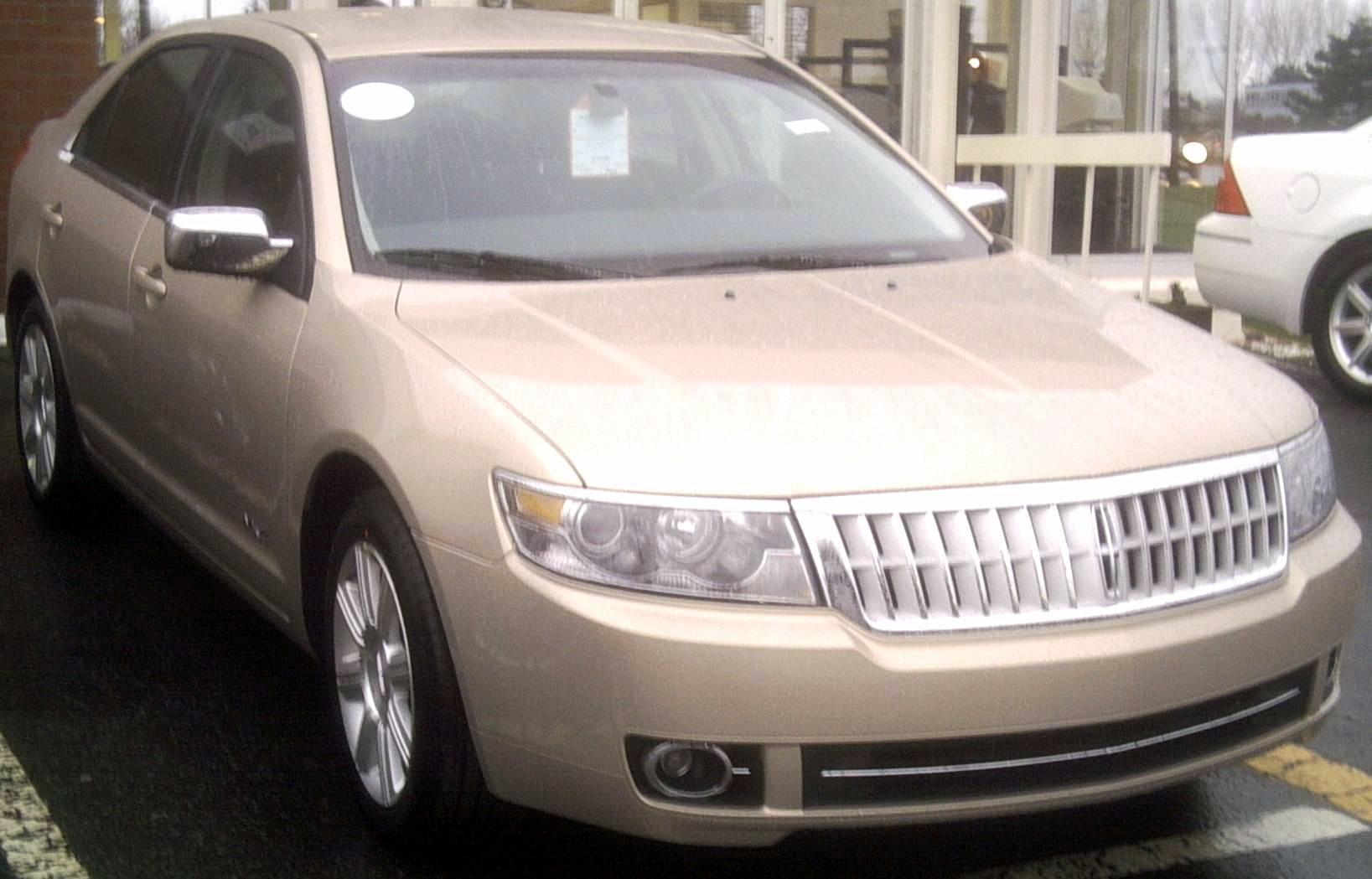 2007 Lincoln MKZ photographed in Montreal, Quebec, Canada.